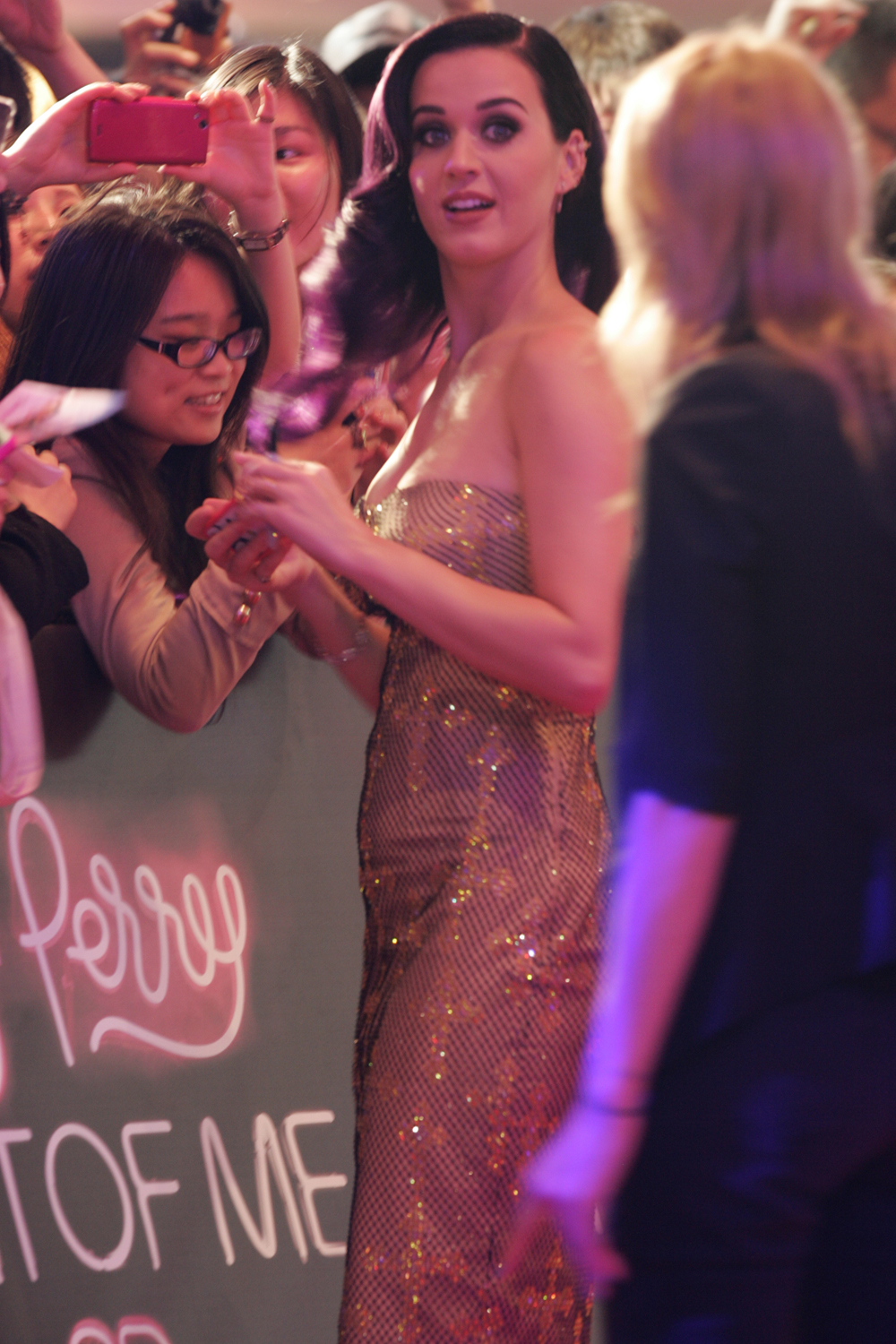 Katy Perry 'Part Of Me' movie premiere in Sydney, Australia. Tonight Katy Perry walked the red carpet in Sydney, Australia, as she premiered her new movie 'Part Of Me'. Hundreds of fans and dozens of news media were on had to witness the star promoting her new movie.